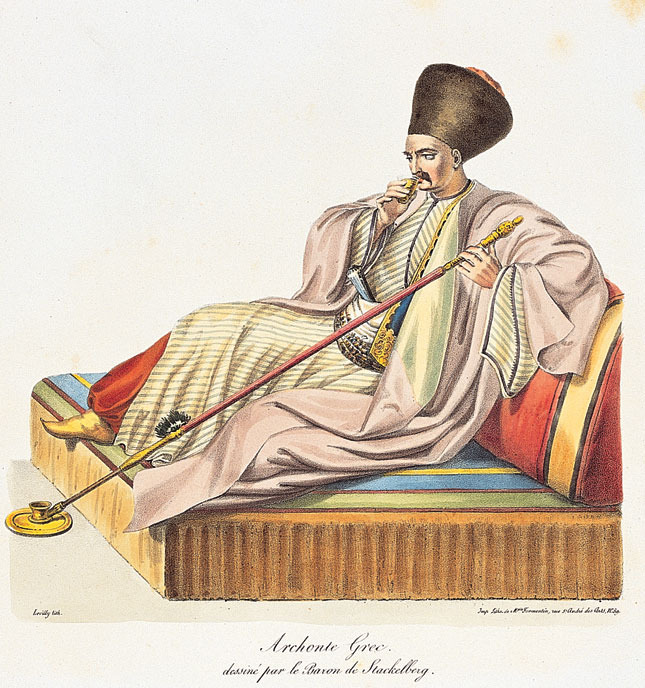 Otto Magnus von Stackelberg. Costumes & Usages des Peuples de la Grèce Moderne dessinés sur les lieux, Paris, Senefelder & Formentin pour Marino (1828)